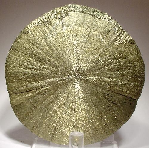 Pyrite Locality: Sparta, Randolph County, Illinois, USA (Locality at ) Size: 7.9 x 7.8 x 1.0 cm. These beautiful, lustrous pyrite floater "suns" formed between an ancient bed of shale and clay near Sparta, Illinois. This one is complete all-around and front and back and has interesting edge scalloping.